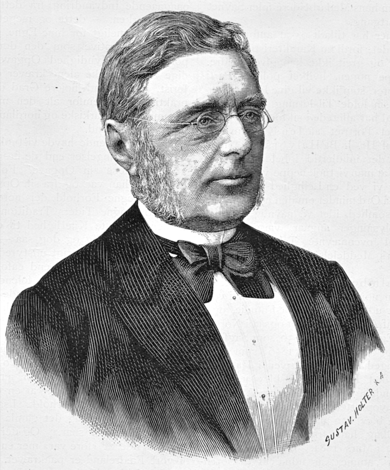 Jens Holmboe (1821–1891), Norwegian civil servant, member of parliament and cabinet minister (Høyre, Conservative Party). Engraving by Gustav Holter (born 16. October 1859 - died 13. June 1940) published 1891 in the journal Skilling-Magazin.